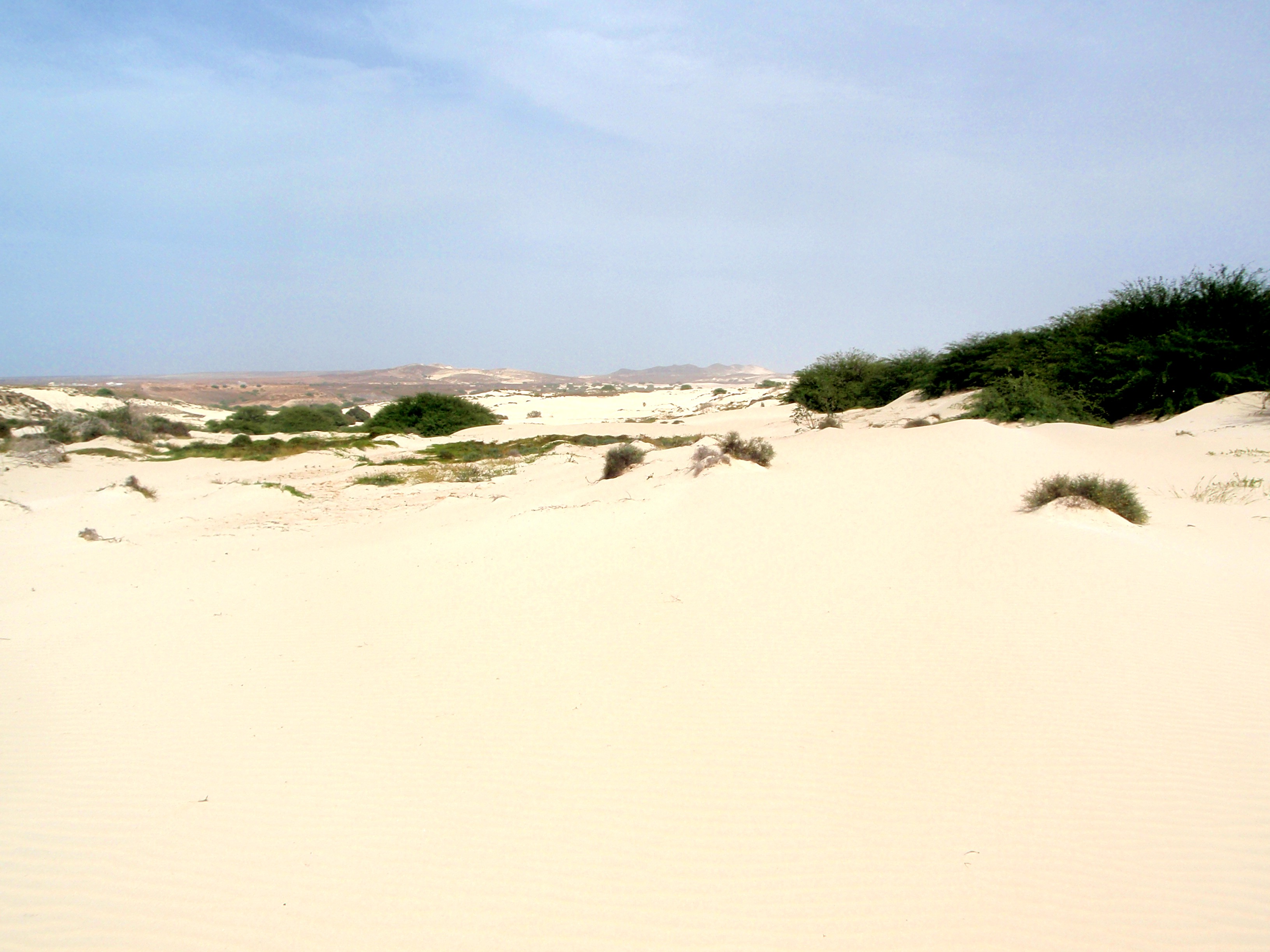 Deserto de Viana, Boa Vista, Cape Verde